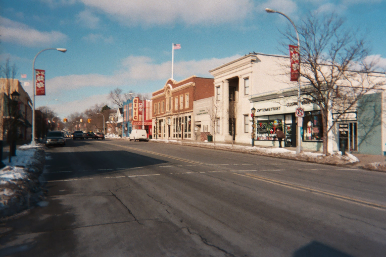 This is a picture of the downtown of Farmington.